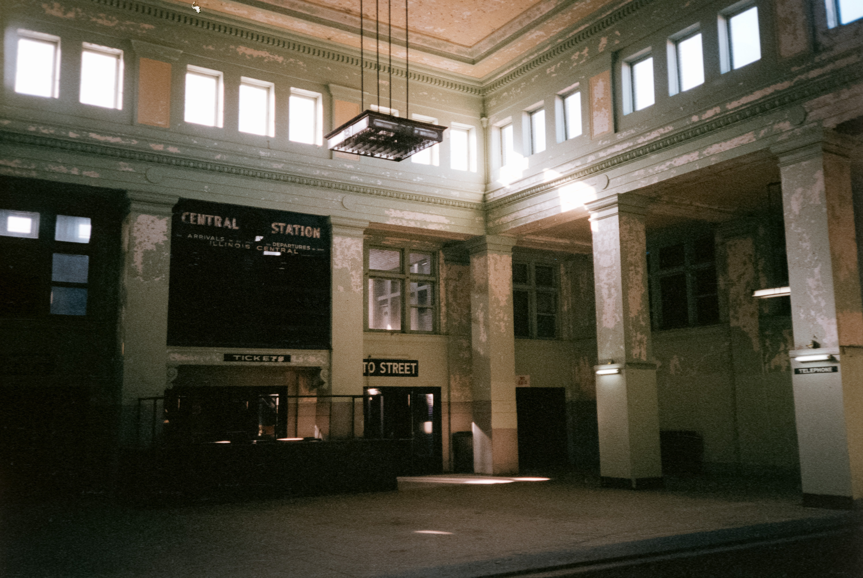 Memphis Central Station interior, December 1995. This is before 1998-1999 renovations.